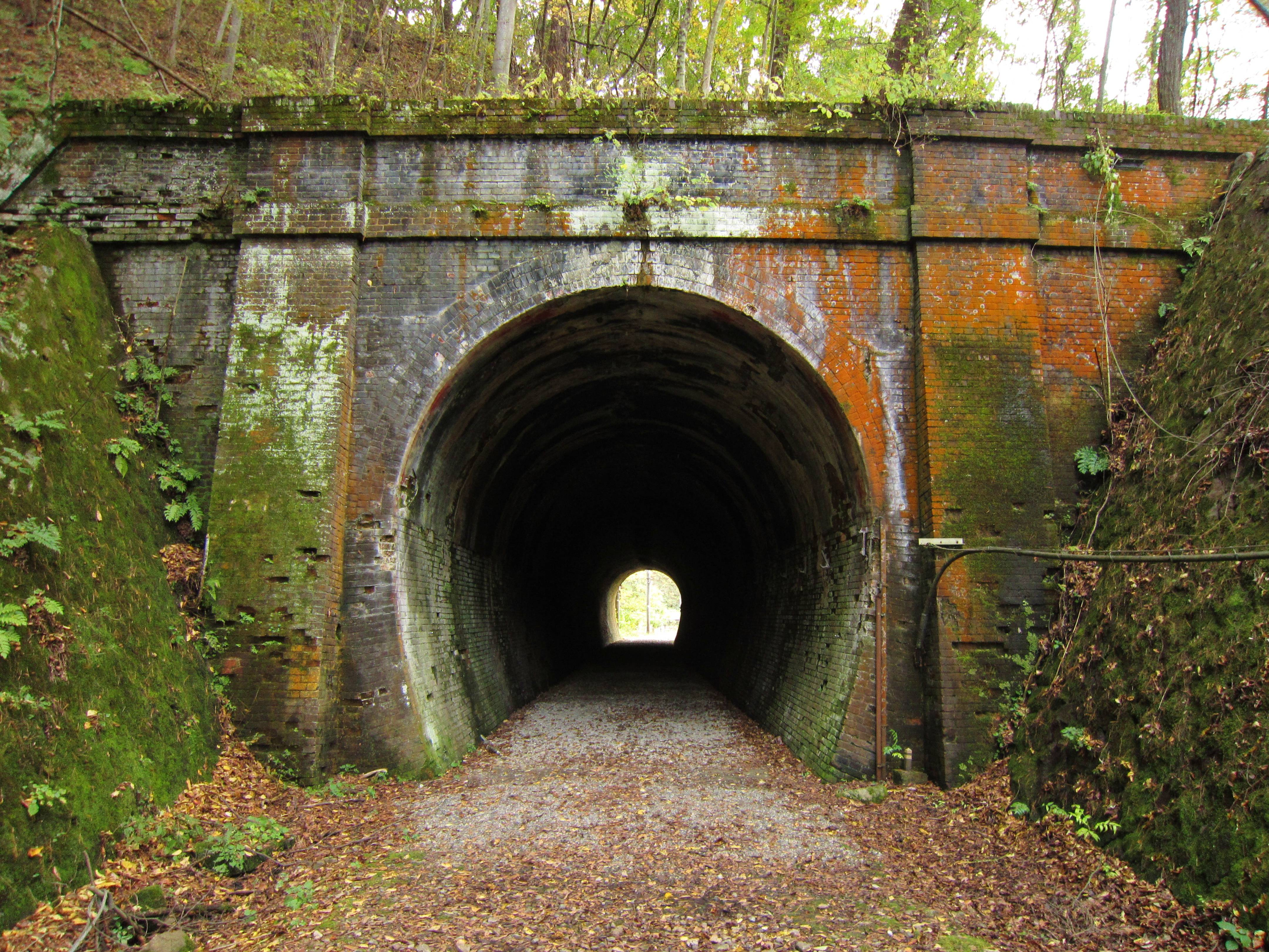 JR East Shinonoi Line Urushikubo Tunnel east side